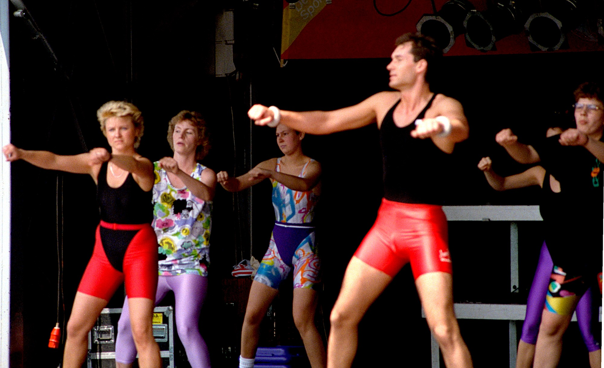 A public demonstration of aerobic exercises